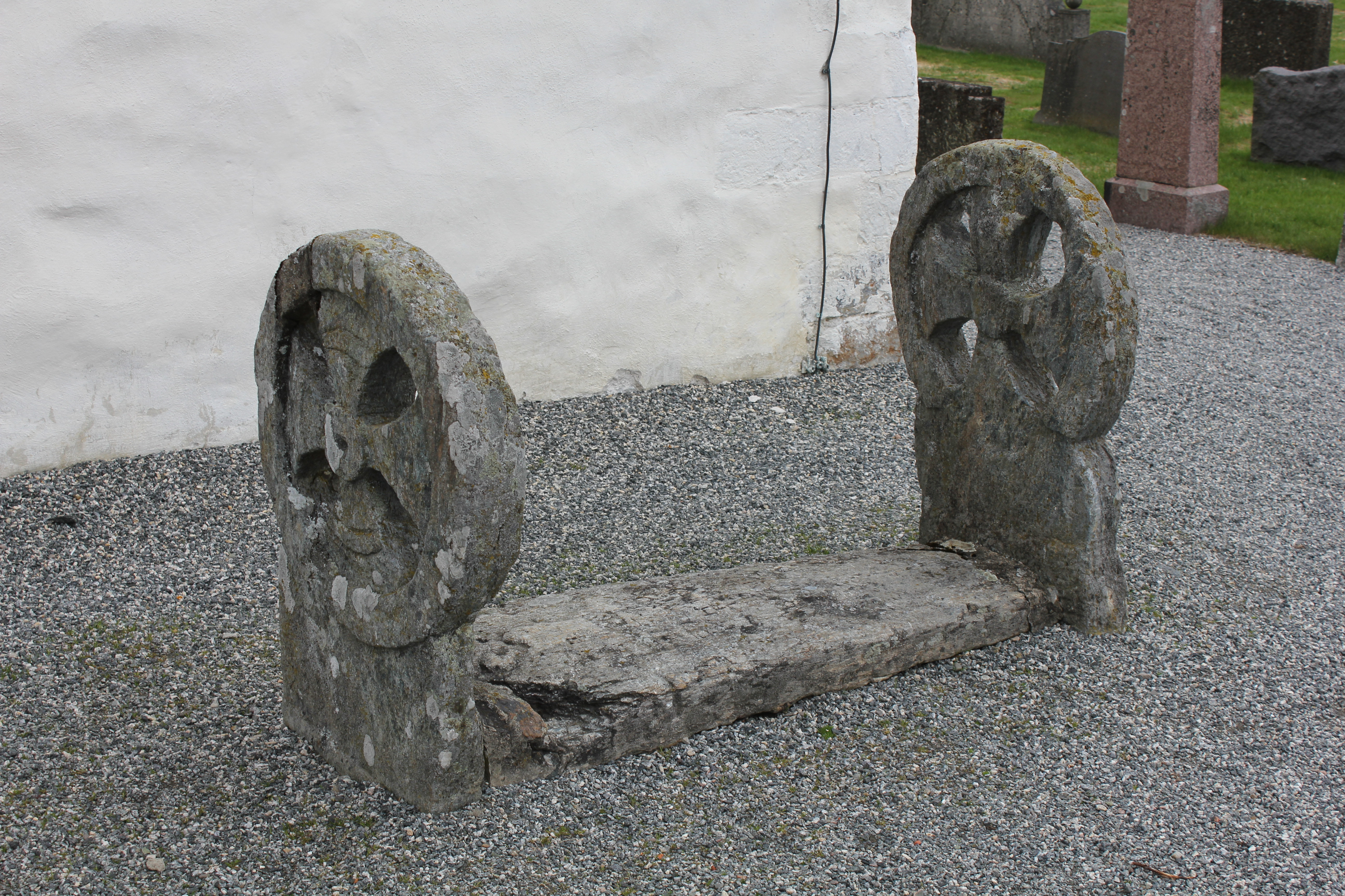 Wheel cross outside Sørum church, Akershus, Norway.